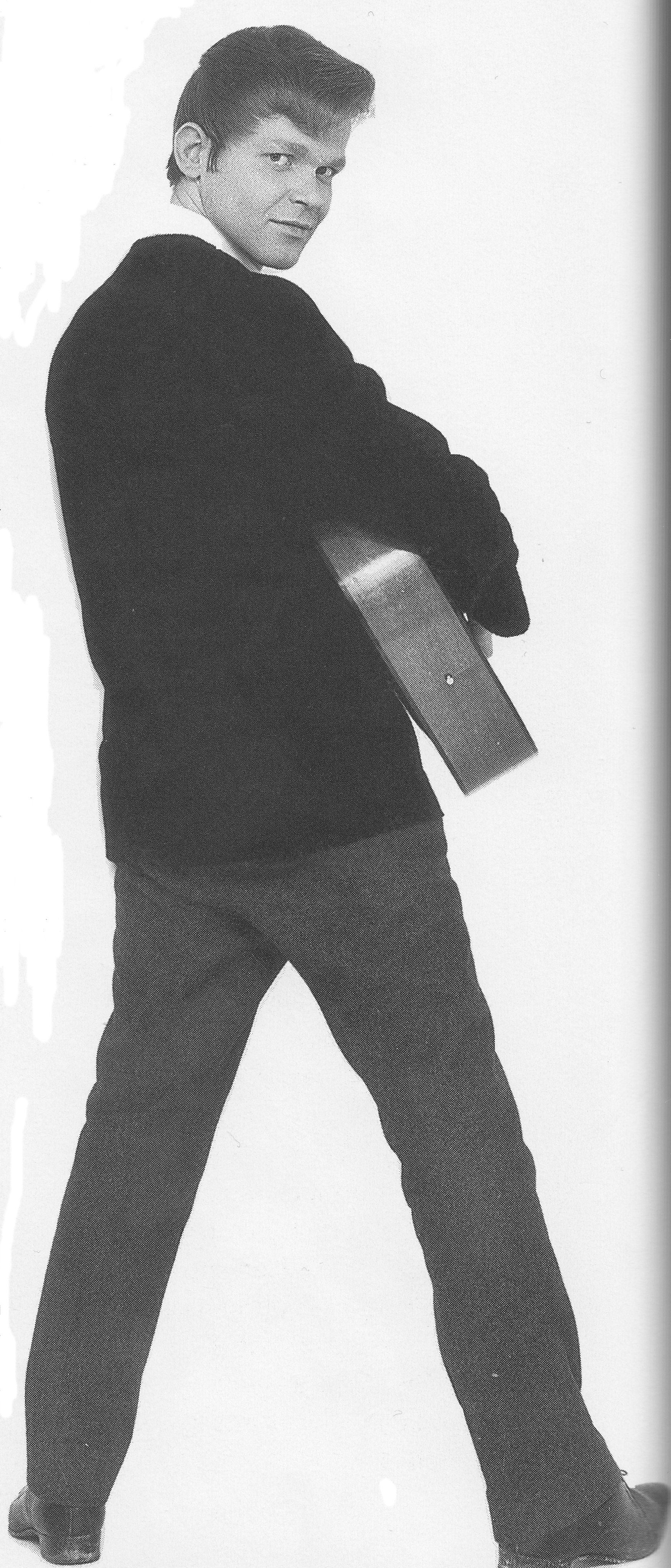 Kari Kuuva finnish singer